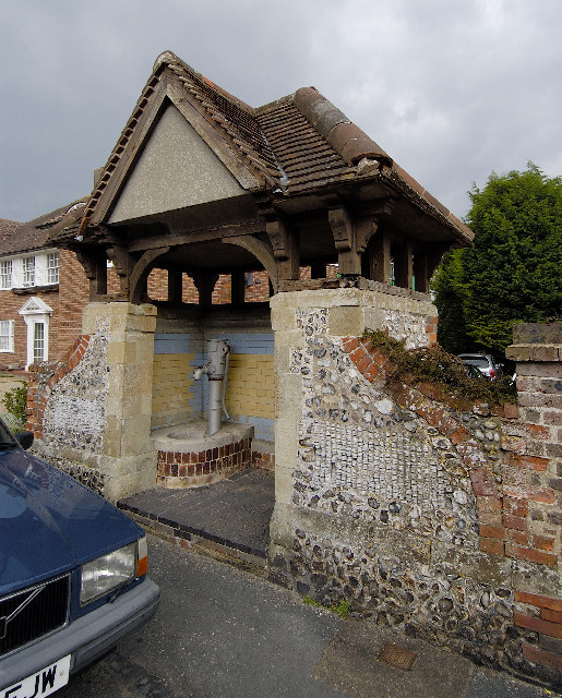 The Village Pump, Willingdon. Originally a dipping hole by a spring, then a well, later covered by a well house and finally this pump house which was built in 1880. The walls are decorated with sheep's knuckle bones.